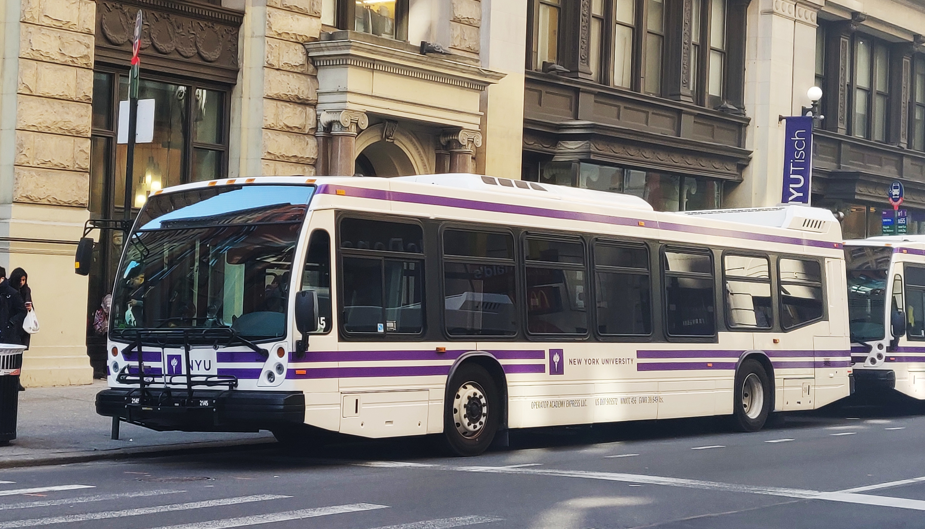 A Nova LFS as Academy Bus #2145 in NYU Livery is in standby for service.